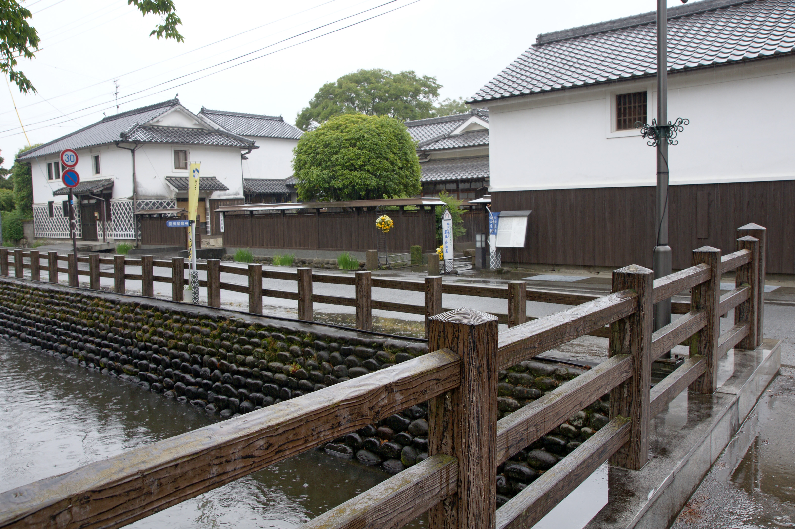 Kagamida Residence in Chikugo-Yoshii, Ukiha, Fukuoka prefecture, Japan